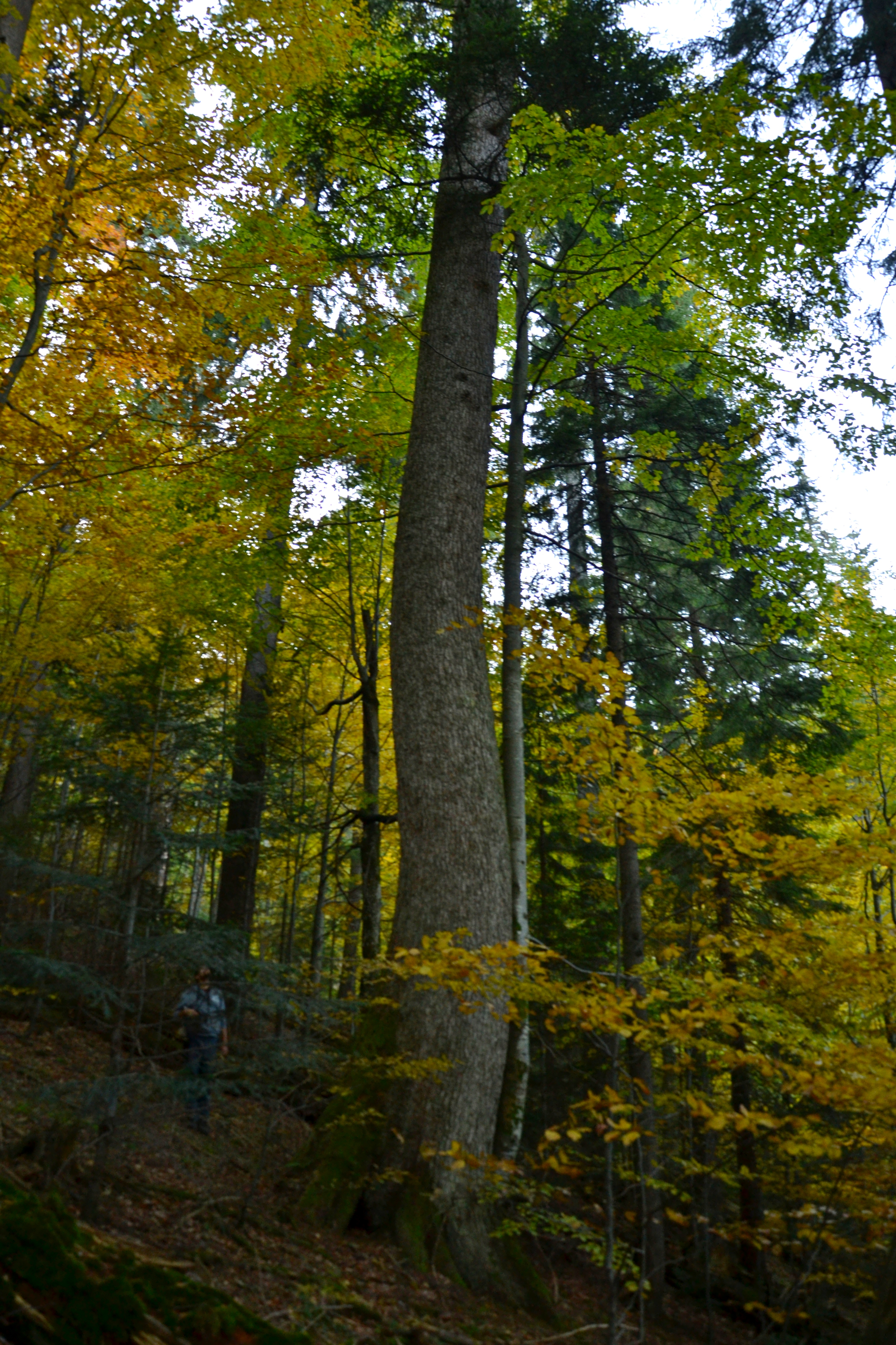 Old-growth forest